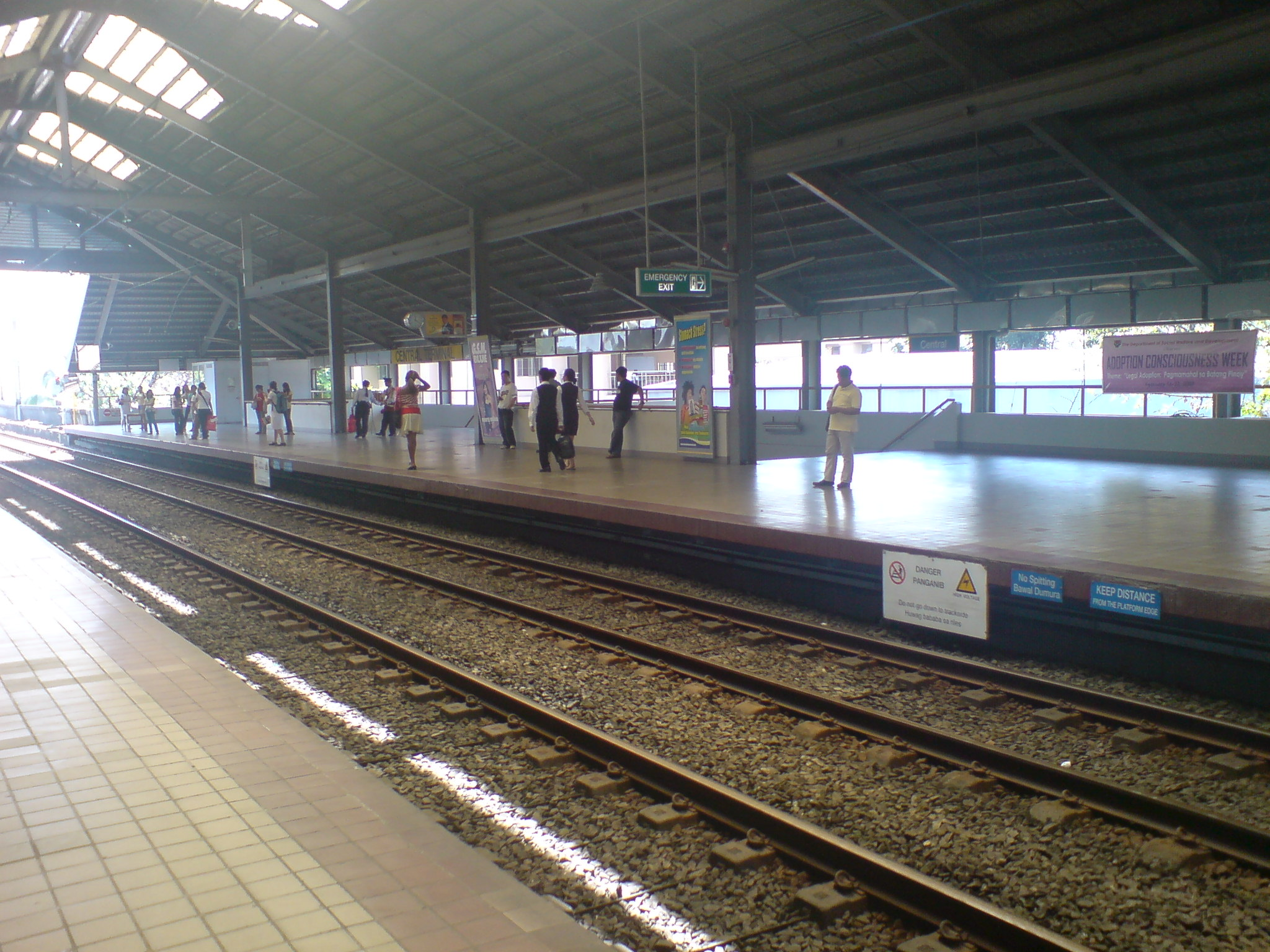 Platform area of Central Terminal LRT Station of the Manila Light Rail Transit System.